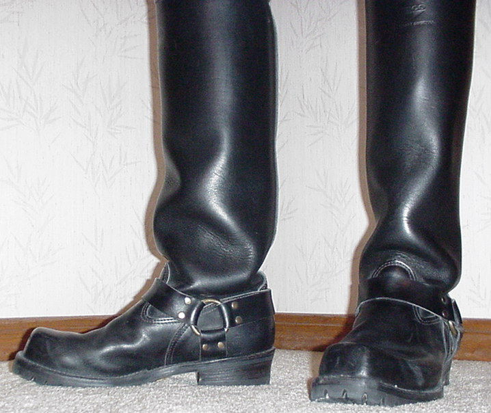 Harness boots. I took this picture myself.